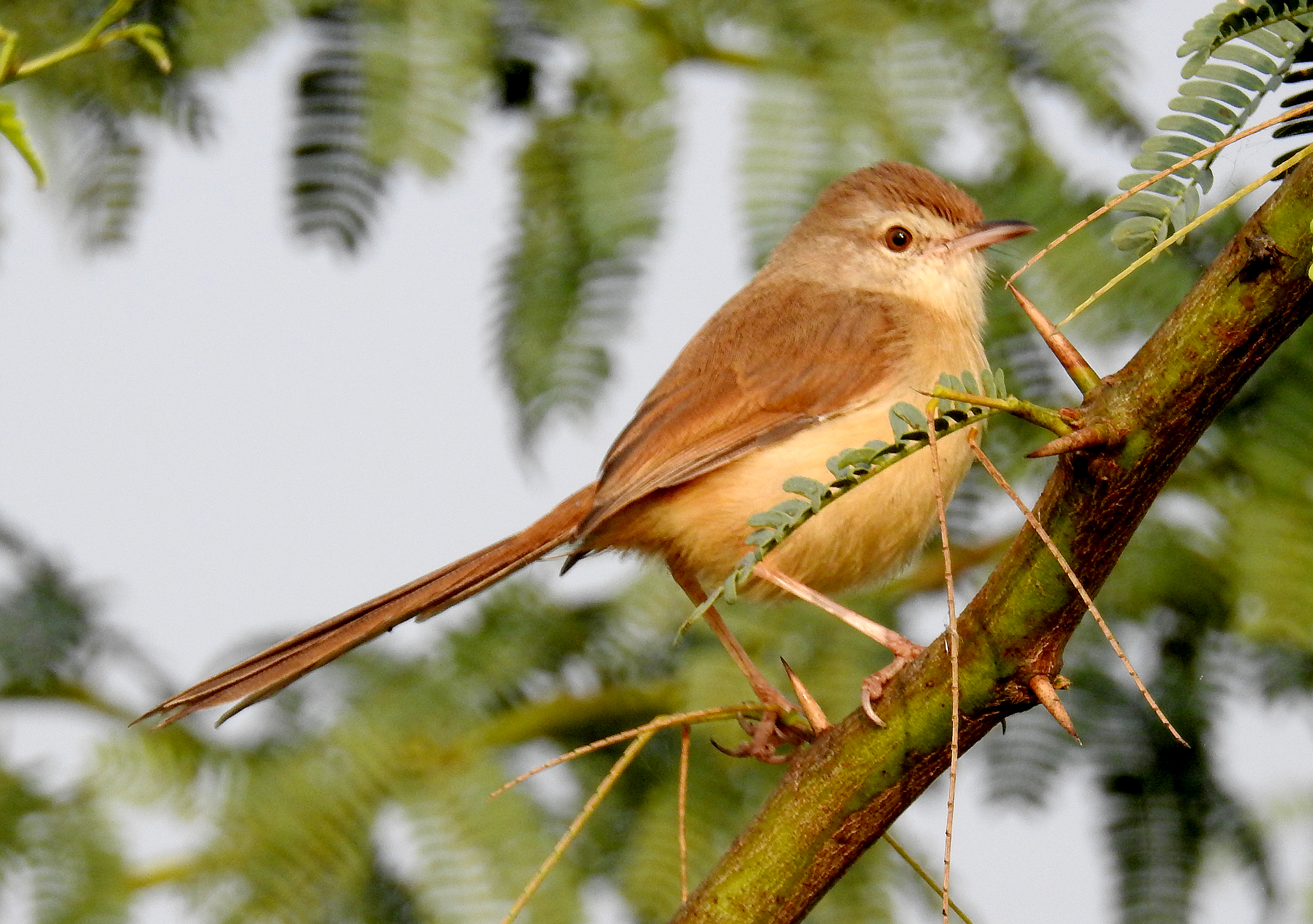 Plain Prinia Prinia inornata. Photo taken by Dr. Raju Kasambe at Chambal, Uttar Pradesh, India.